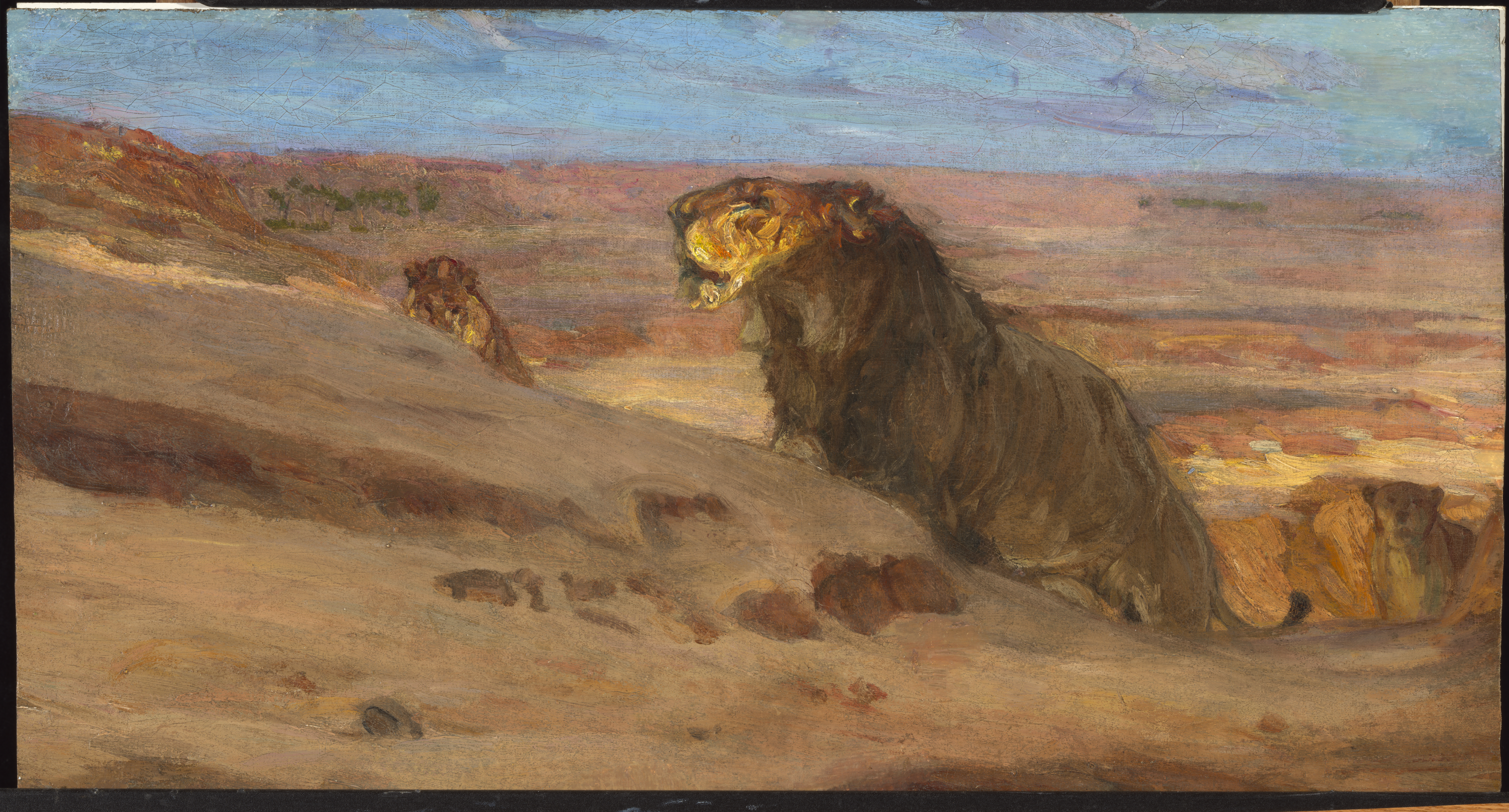 Painting exhibited in the Renwick Gallery, Washington, DC, USA. This artwork is in the public domain because the artist died more than 70 years ago.